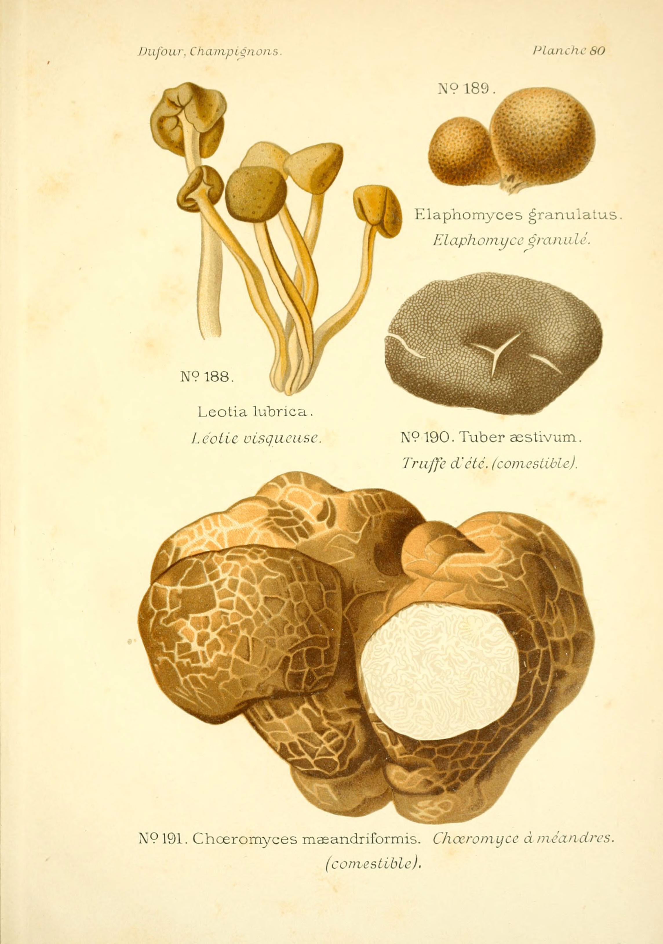 Atlas des champignons comestibles et vénéneuxParis,P. Klincksieck,1891.